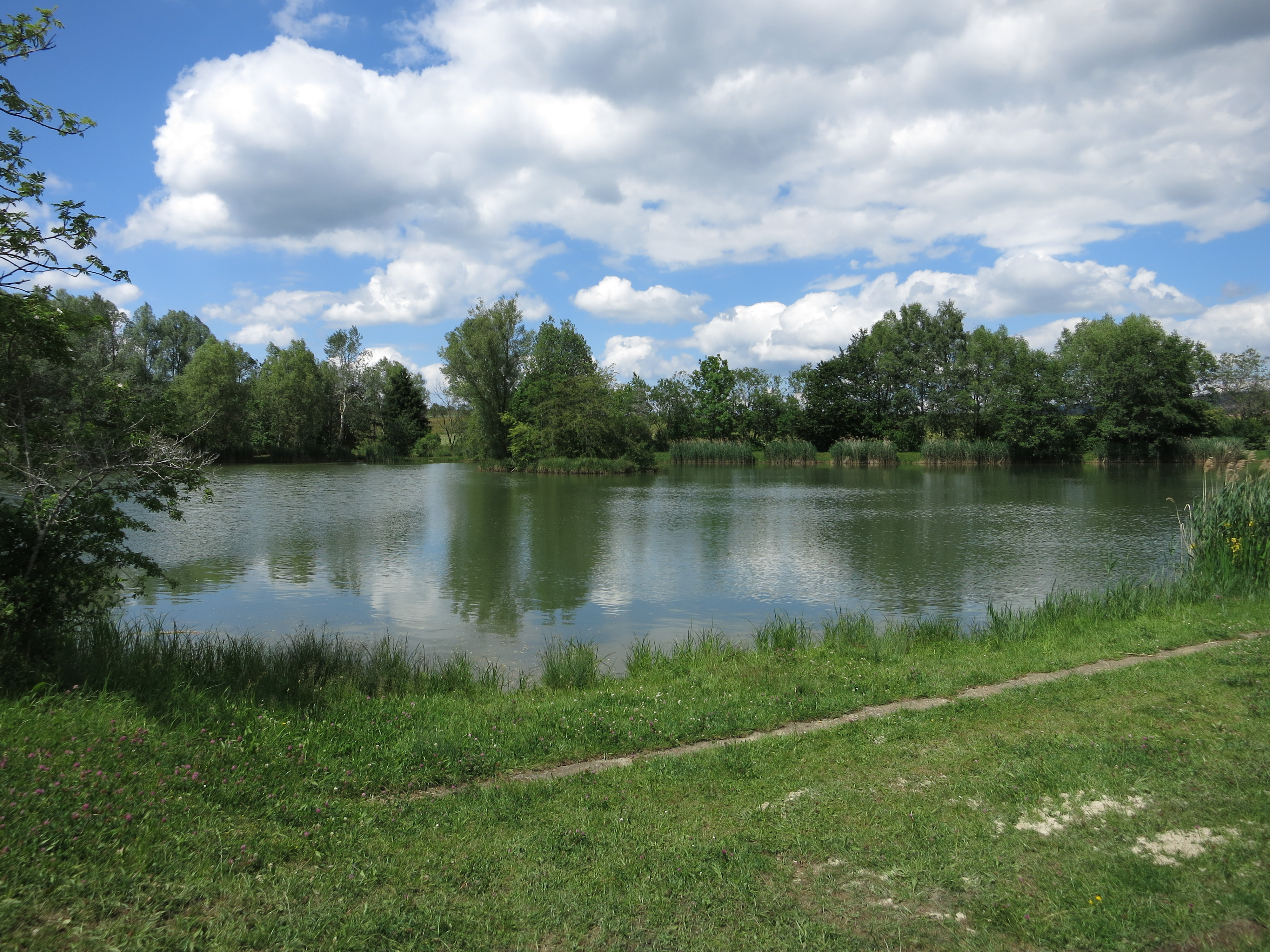 Lake Hummelsee near Deilingen